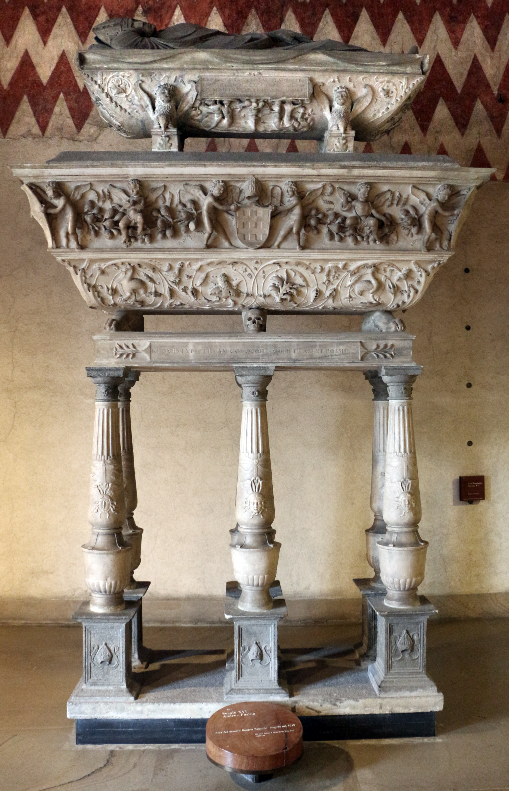 Museo d'arte antica (Milan) - 16th-century sculptures